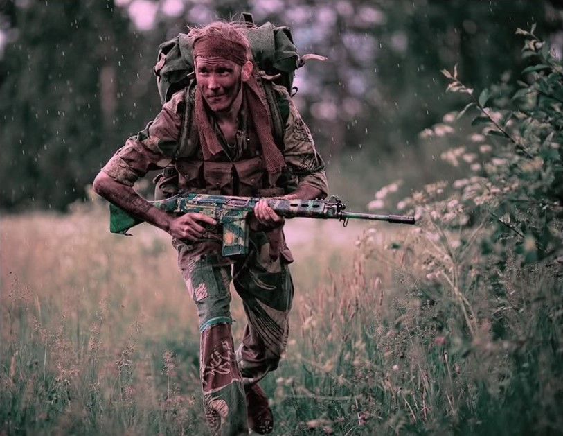 A modern re-enactor, Stefan Melander, simulates a Rhodesian Light Infantry soldier from 1979, wearing appropriate uniform and carrying appropriate gear. Photograph taken by Samu Hupli.